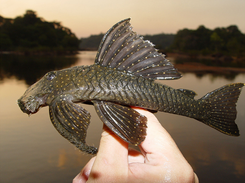 Live-color photographs of Guyanancistrus niger, MHNG 2722.089, French Guiana: Oyapock River, Saut Maripa (R. Covain)